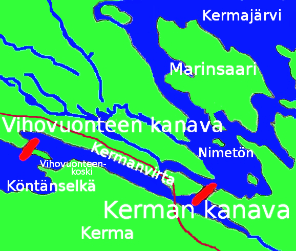 Heinävesi, Finland: Kerma and Vihovuonne canals near Kerma village.